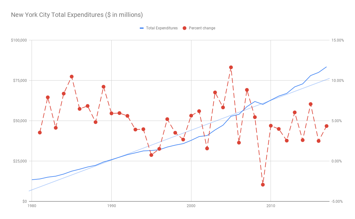 1980-2018 Total New York City Property Tax History. based on data at